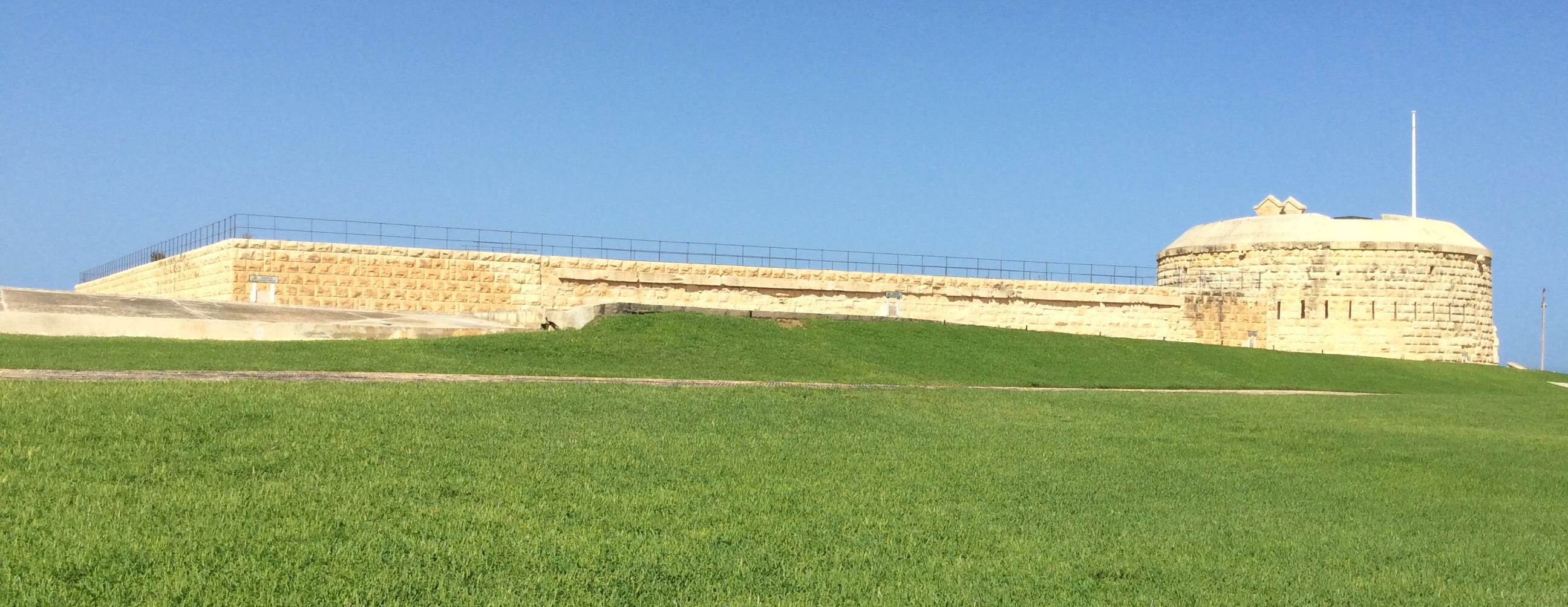 Fort tigne flank and keep